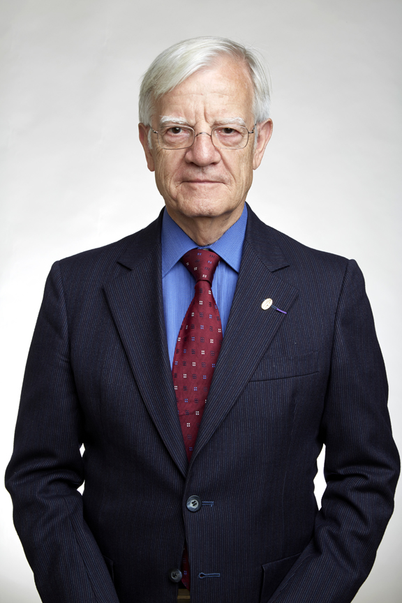 Albrecht Werner Hofmann is Emeritus Professor at the Max Planck Institute for Chemistry and an Adjunct Professor at Columbia University Attribution: The Royal Society